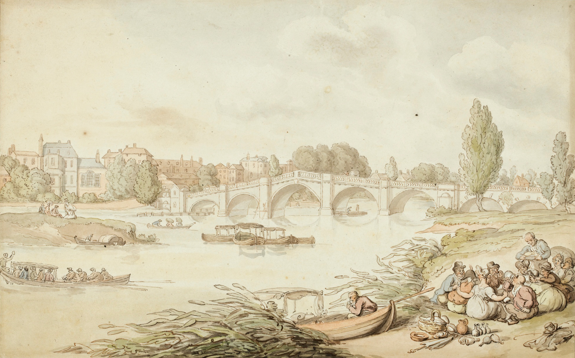 Richmond Bridge from the Twickenham Bank: watercolour and pen, 265 x 425 mm.